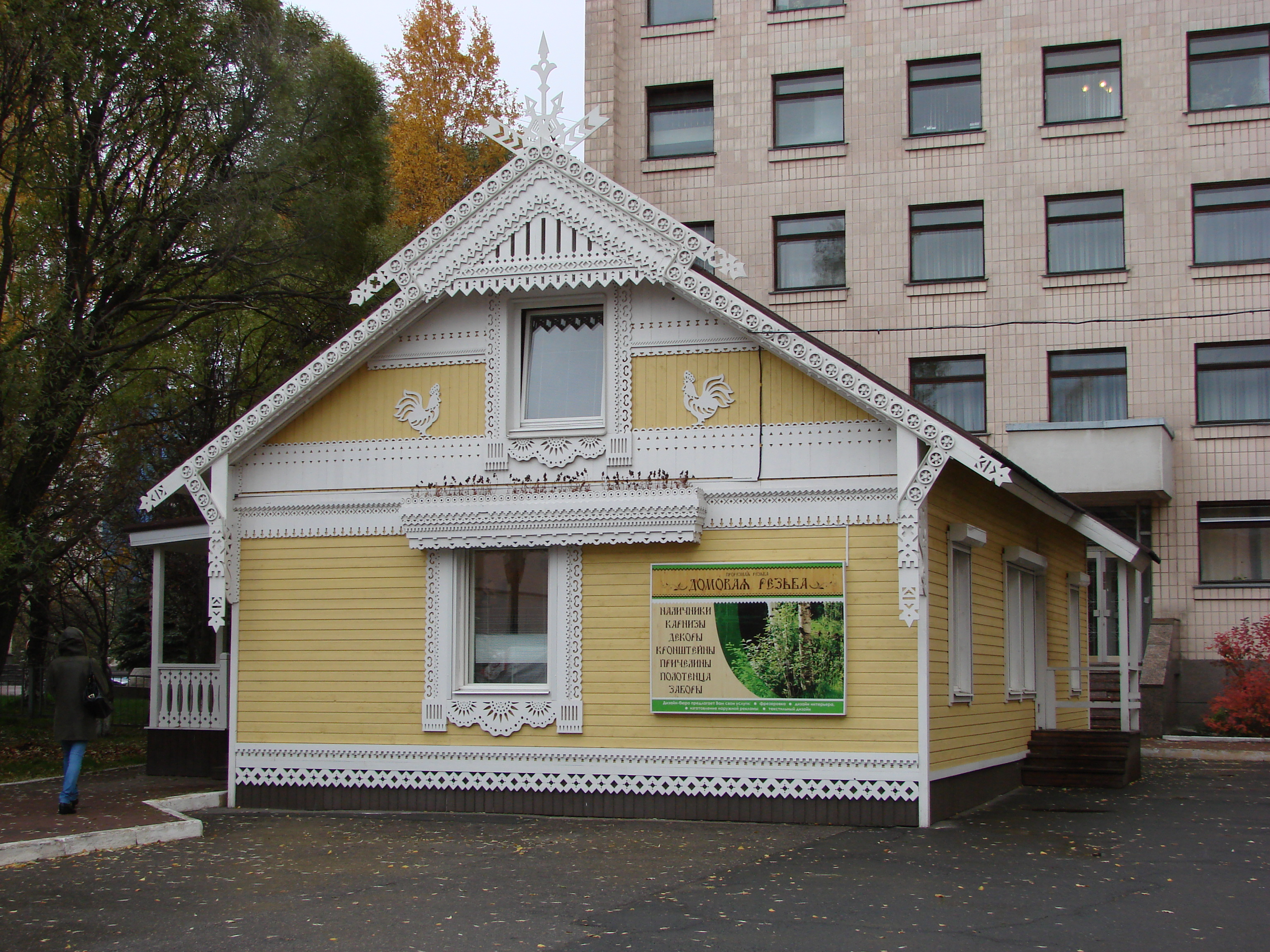 Russia, Vologda, House-thread